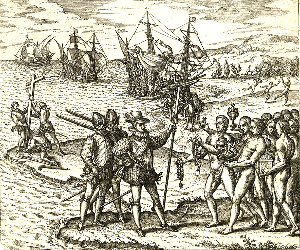 Christopher Columbus landing on Hispaniola.